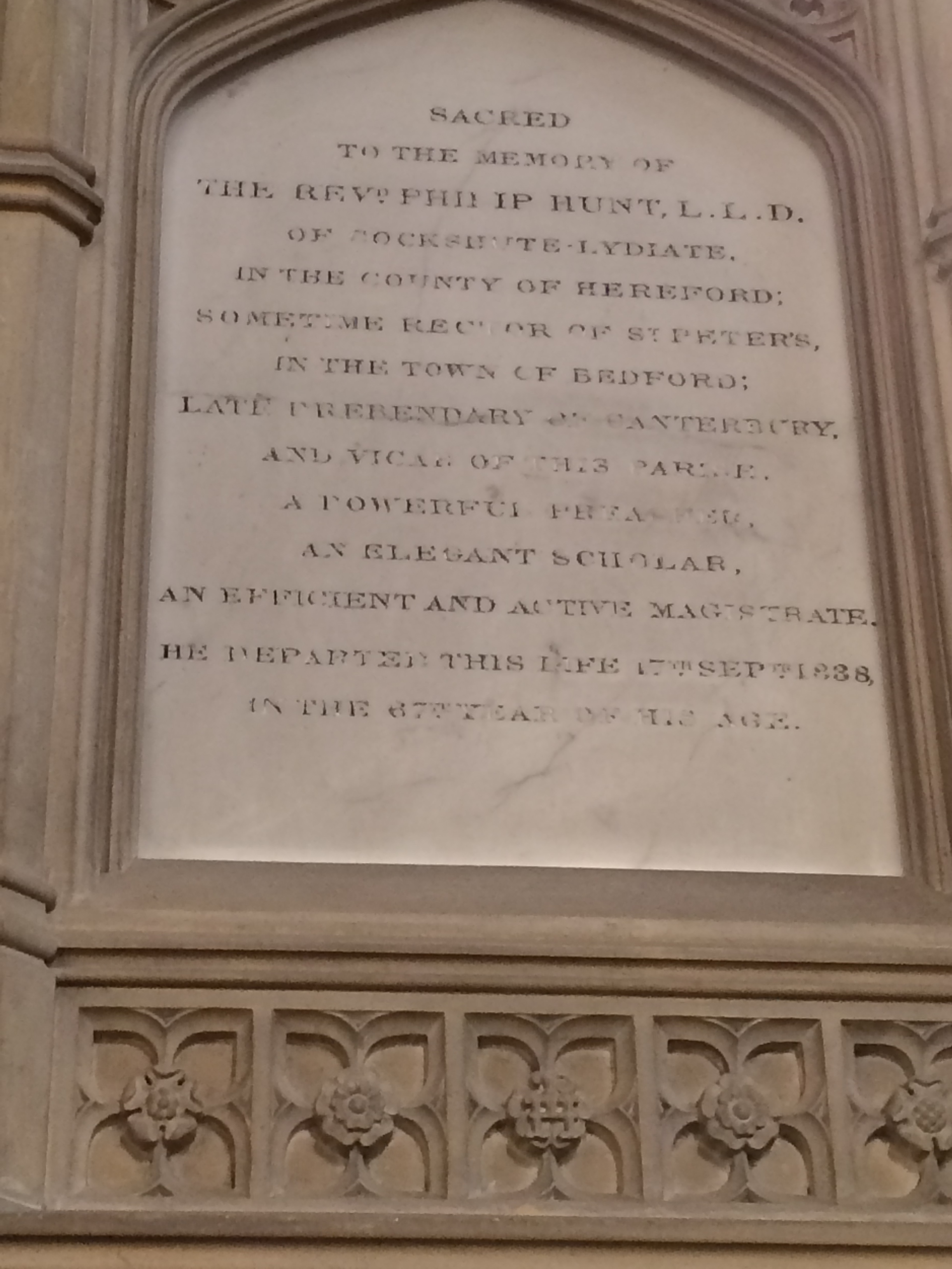 Memorial to Philip Hunt (1772–1838), English Anglican priest, in Aylsham church, Norfolk where he was vicar at the end of his life.